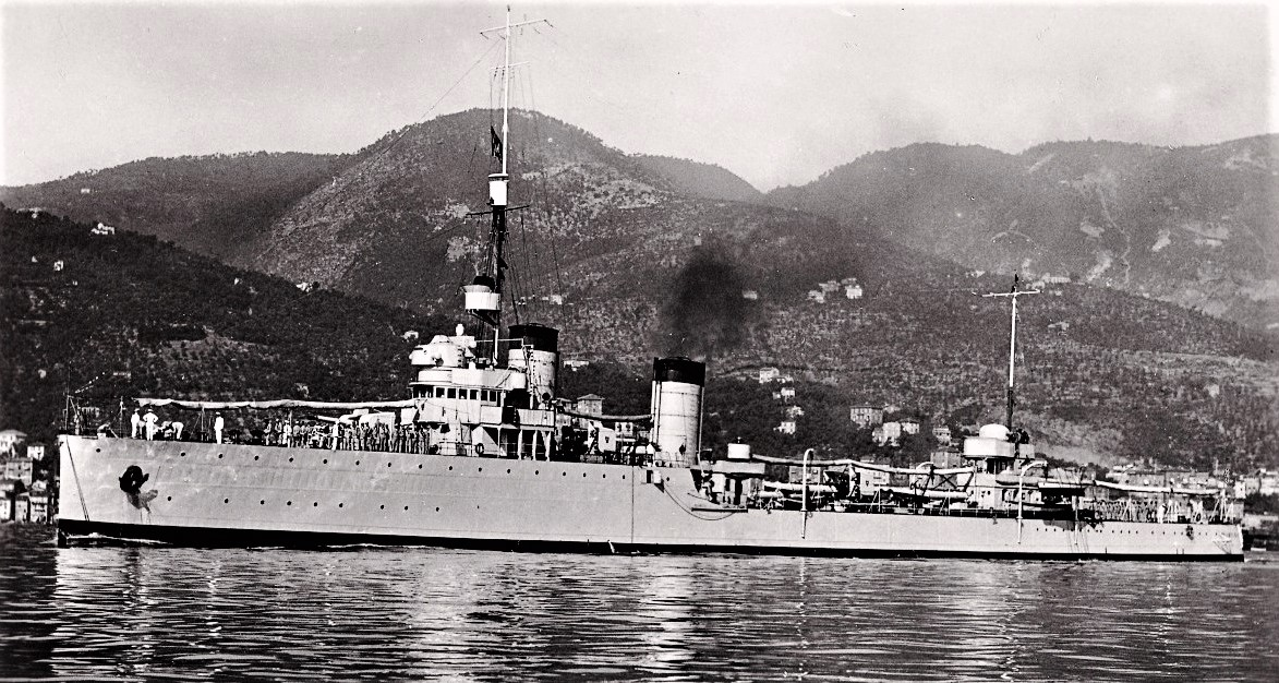 Italian destroyer Pantera, classified as esploratore -scout- at this time